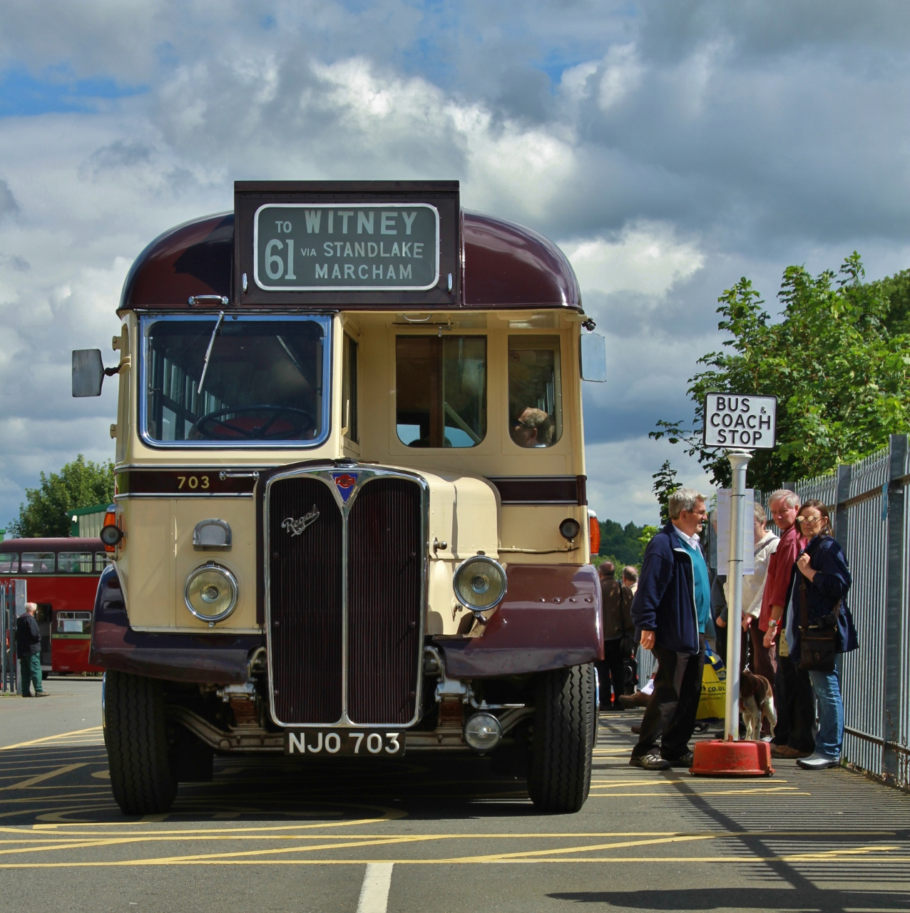 AEC Regal III bus, registration mark NJO 703, at Oxford Bus Museum in Long Hanborough, Oxfordshire. It is in City of Oxford Motor Services livery, carrying fleet number 703.